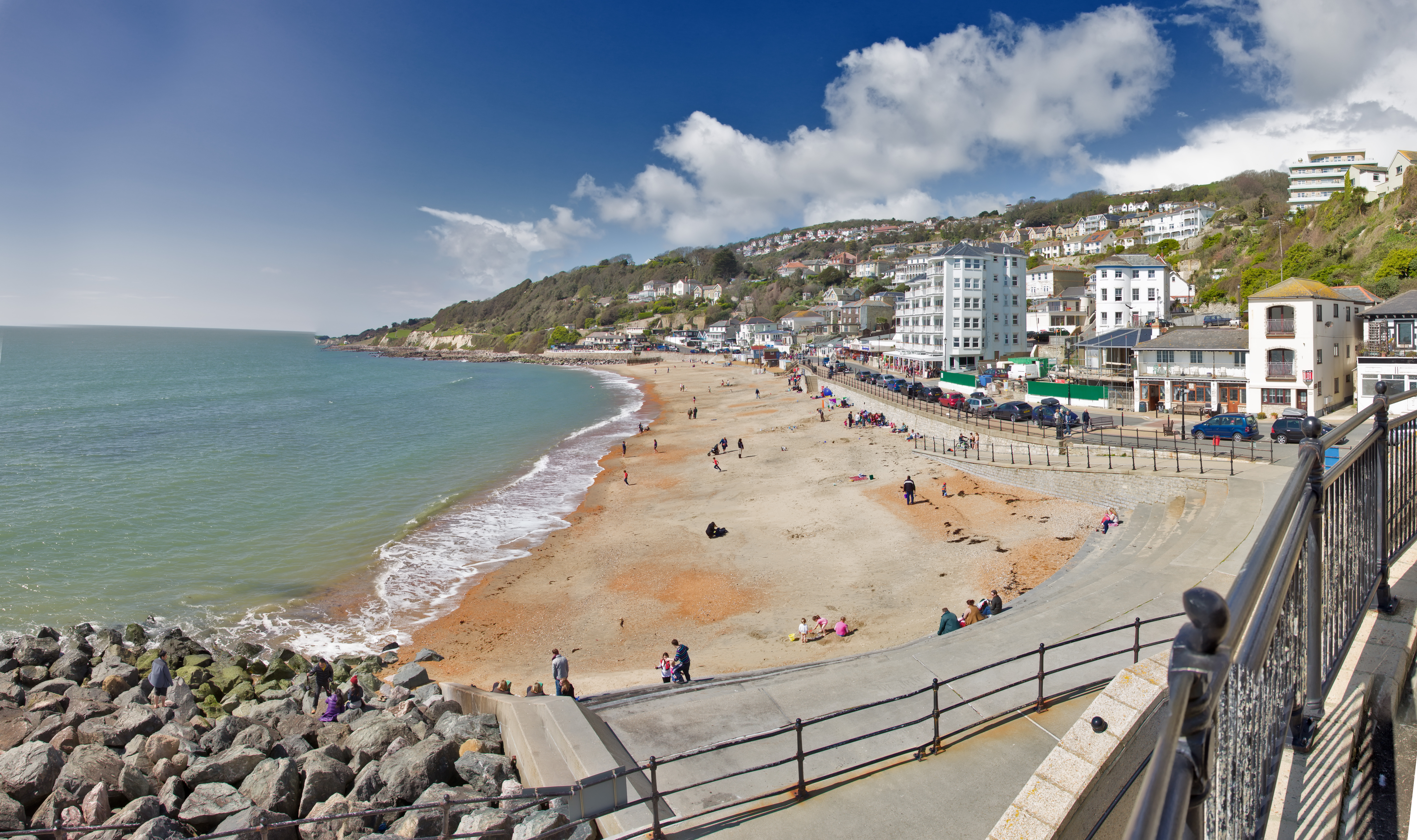 Ventnor Ventnor